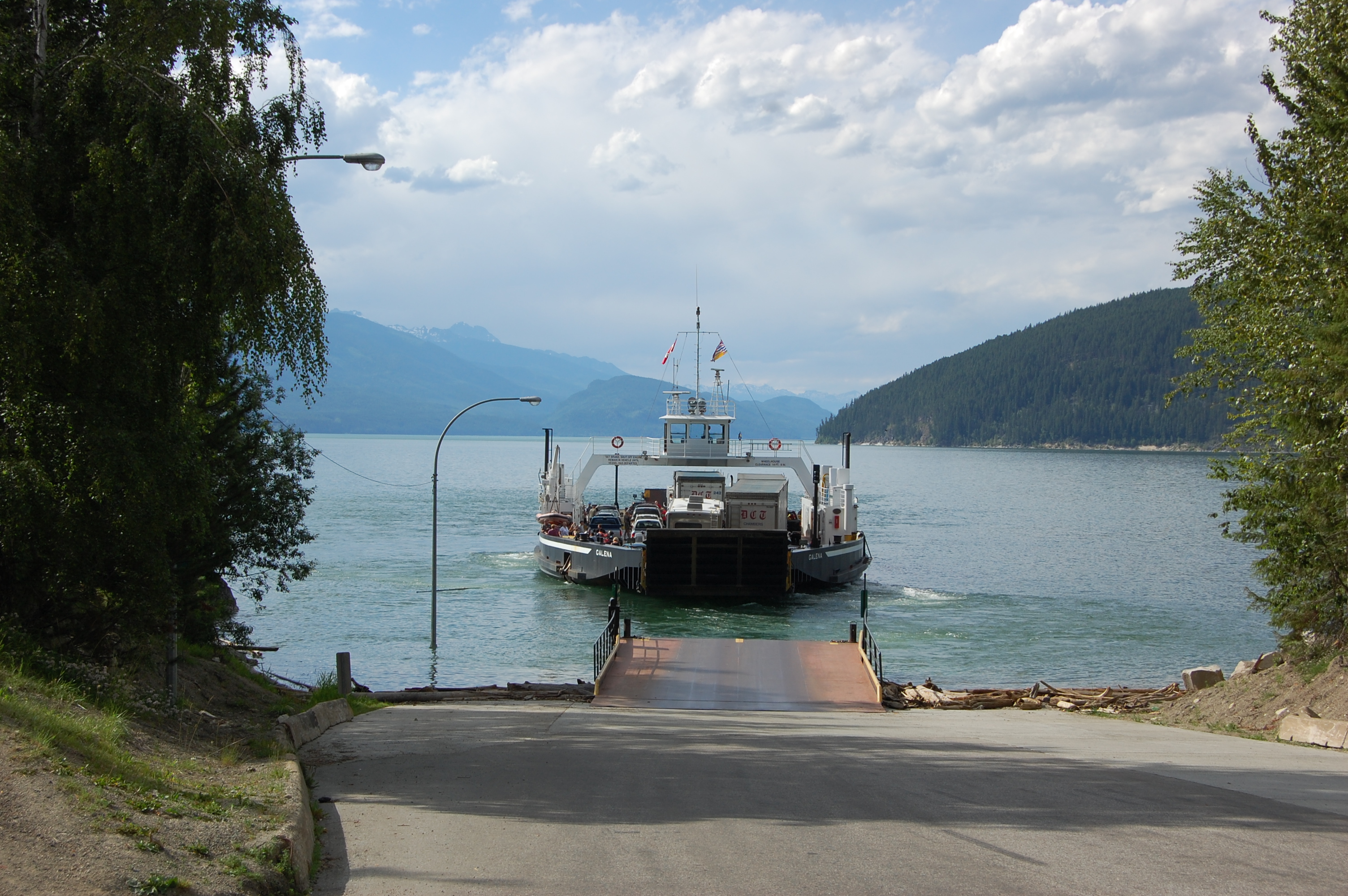 Shelter Bay - Galena Bay ferry departing Galena Bay to cross North Arrow Lake.